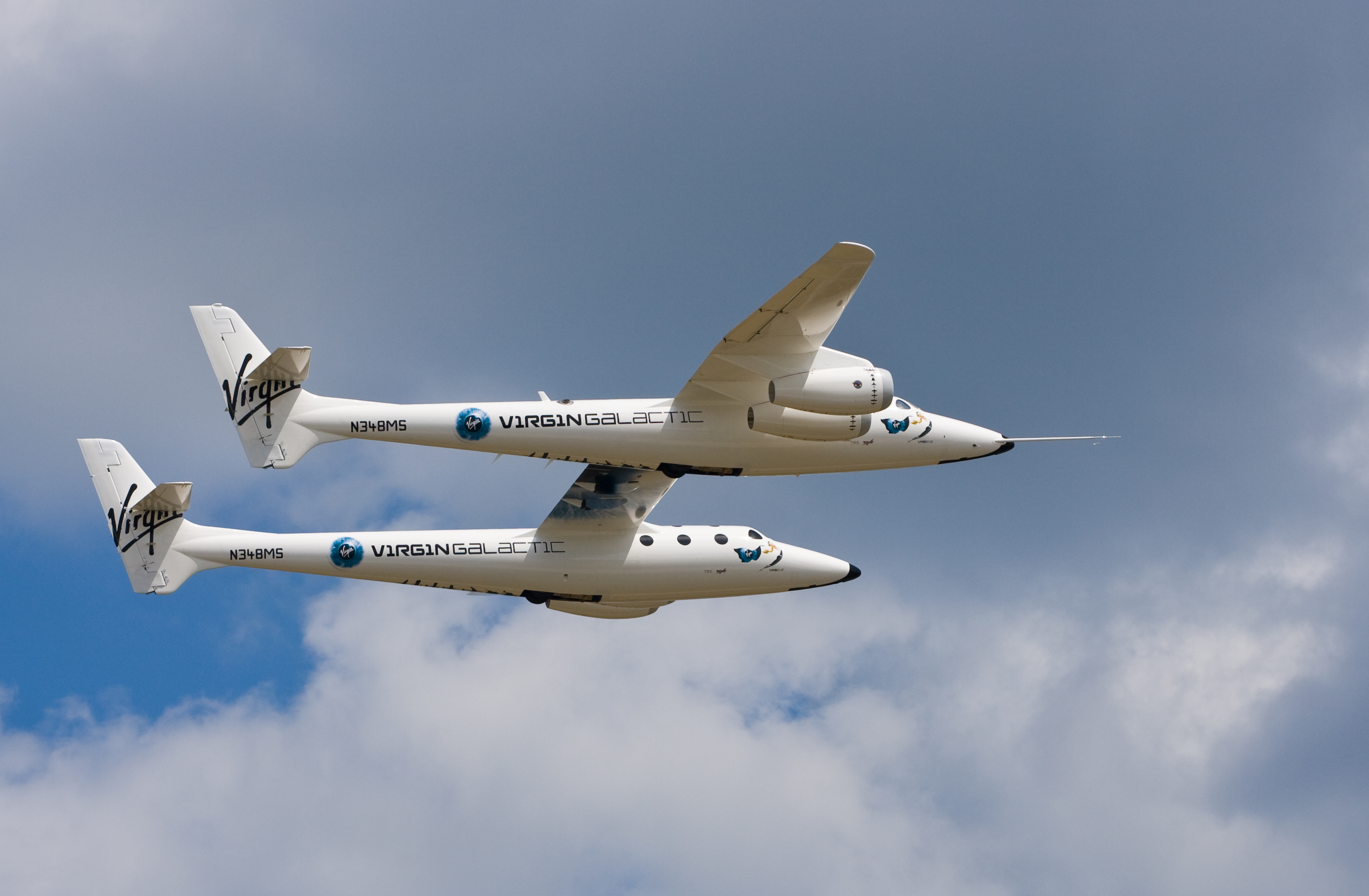 White Knight Two demo flight at Oshkosh, WI